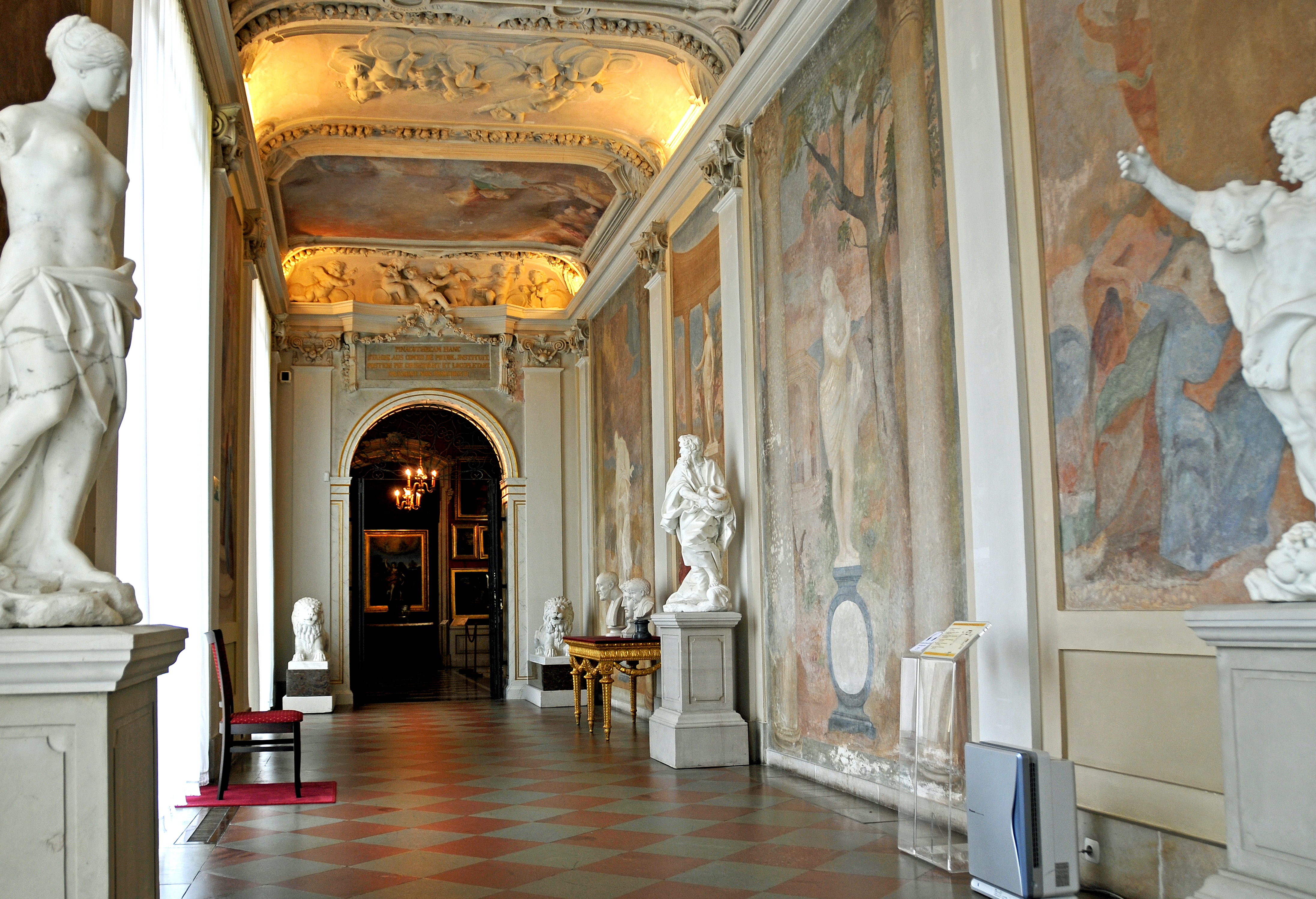 PLEASE, no multi invitations in your comments. Thanks. I AM POSTING MANY DO NOT FEEL YOU HAVE TO COMMENT ON ALL - JUST ENJOY. You are not allowed to take pictures inside of the palace so I was limited to what I could get away with. These and the next upload are all I could manage.